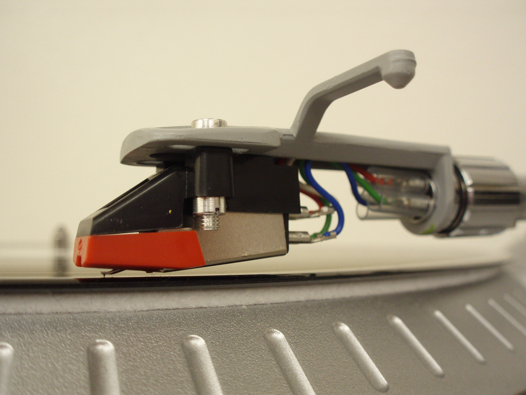 Close-up shot of a turntable cartridge and needle resting on a vinyl record.